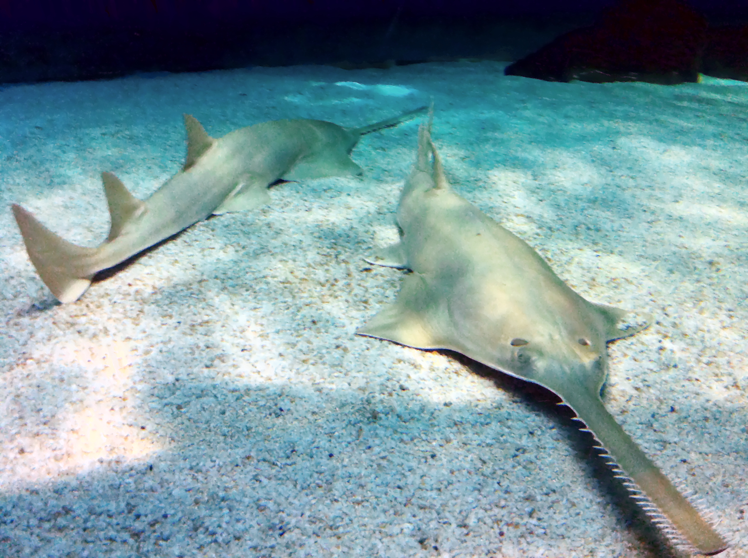 Green sawfish (Pristis zijsron) at the Genova Aquarium.